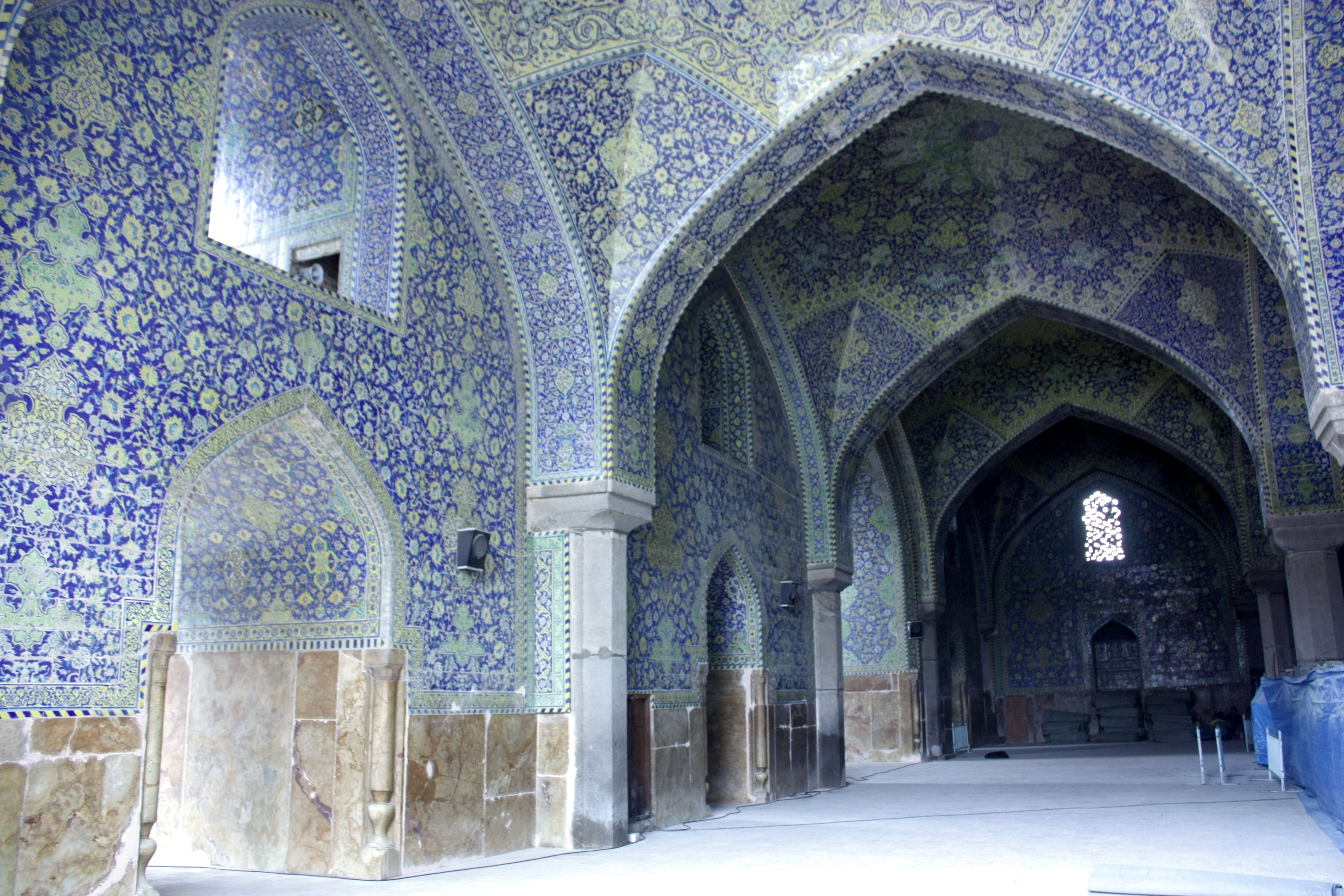 Imam Mosque Isfahan